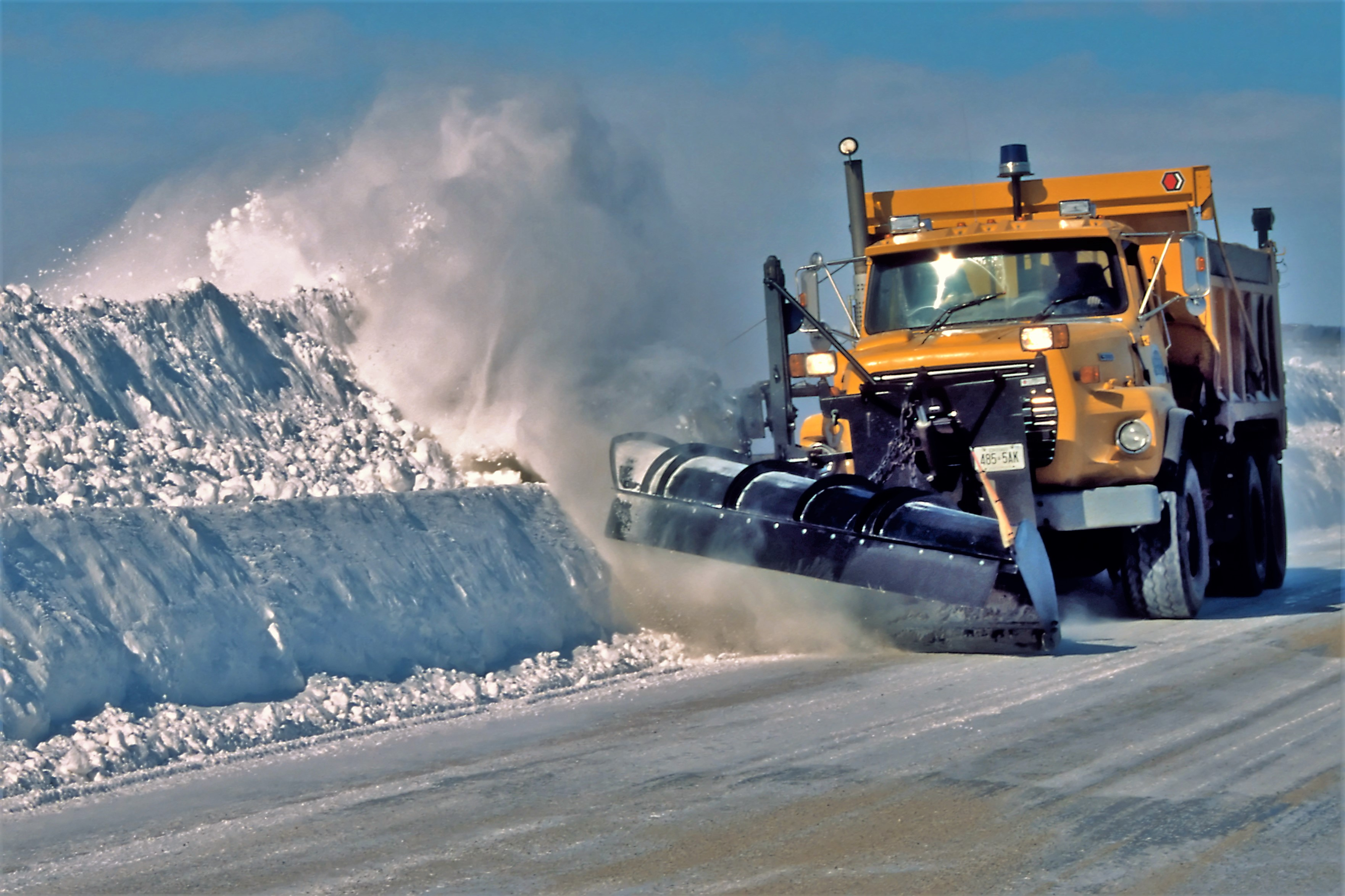 Snowwiper near Toronto, Canada